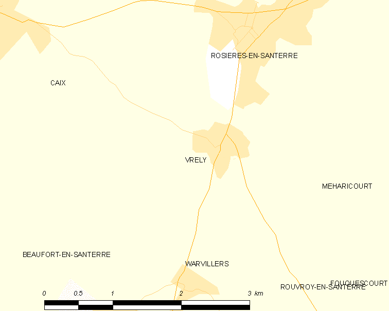 Map of French municipality Vrély